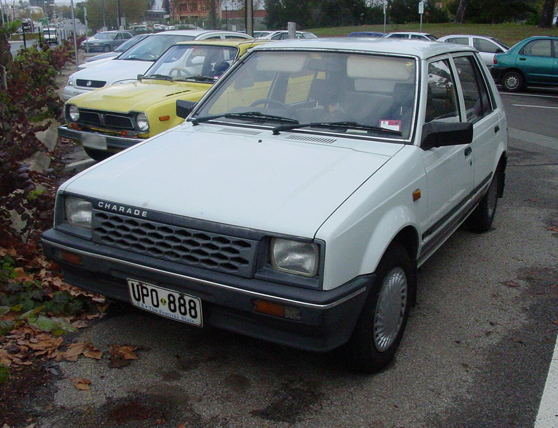 Daihatsu Charade (G11) CX, showing distinct honeycomb grille of early versions